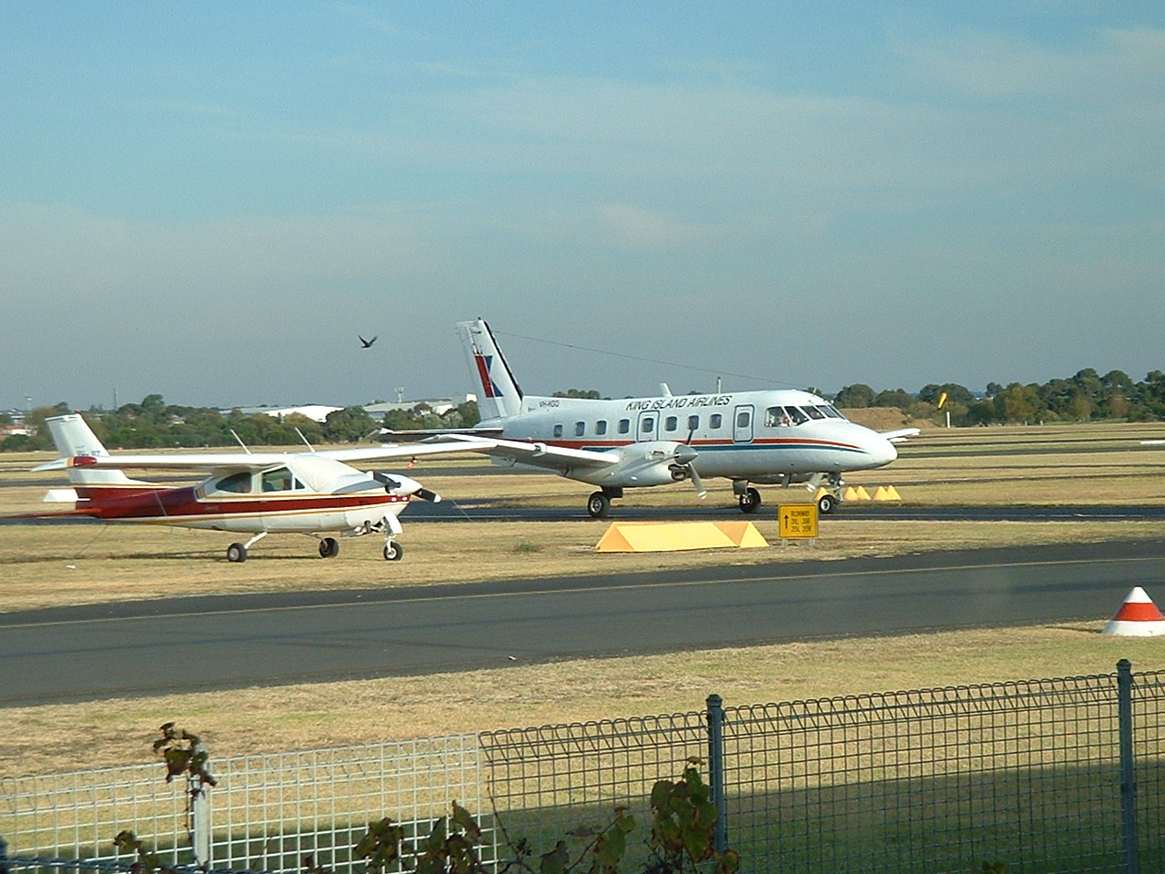 King Island Airline plane coming into the terminal building at Moorabbin Airport, Victoria, Australia.